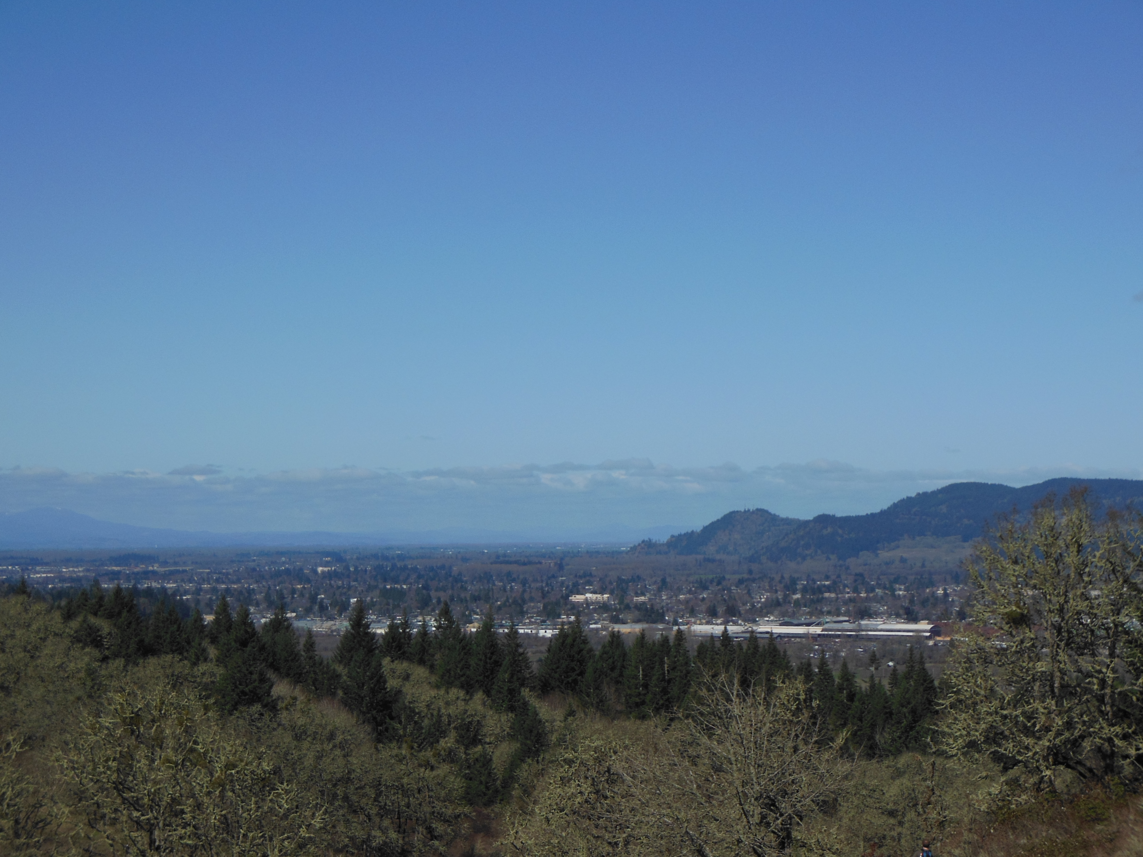 The city of Springfield and part of Eugene (upper left) in Lane County, Oregon, U.S., as seen from a viewpoint on Mount Pisgah